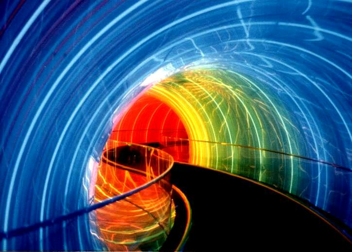 Rainbow Tunnel at the Journey Through Imagination Pavillion at Walt Disney World (from the 1980s - 1990s).